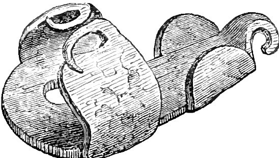 Illustration from "Horse-shoes and horse-shoeing : their origin, history, uses, and abuses ", pag. 115, George Fleming, Chapman and Hall, London 1869.